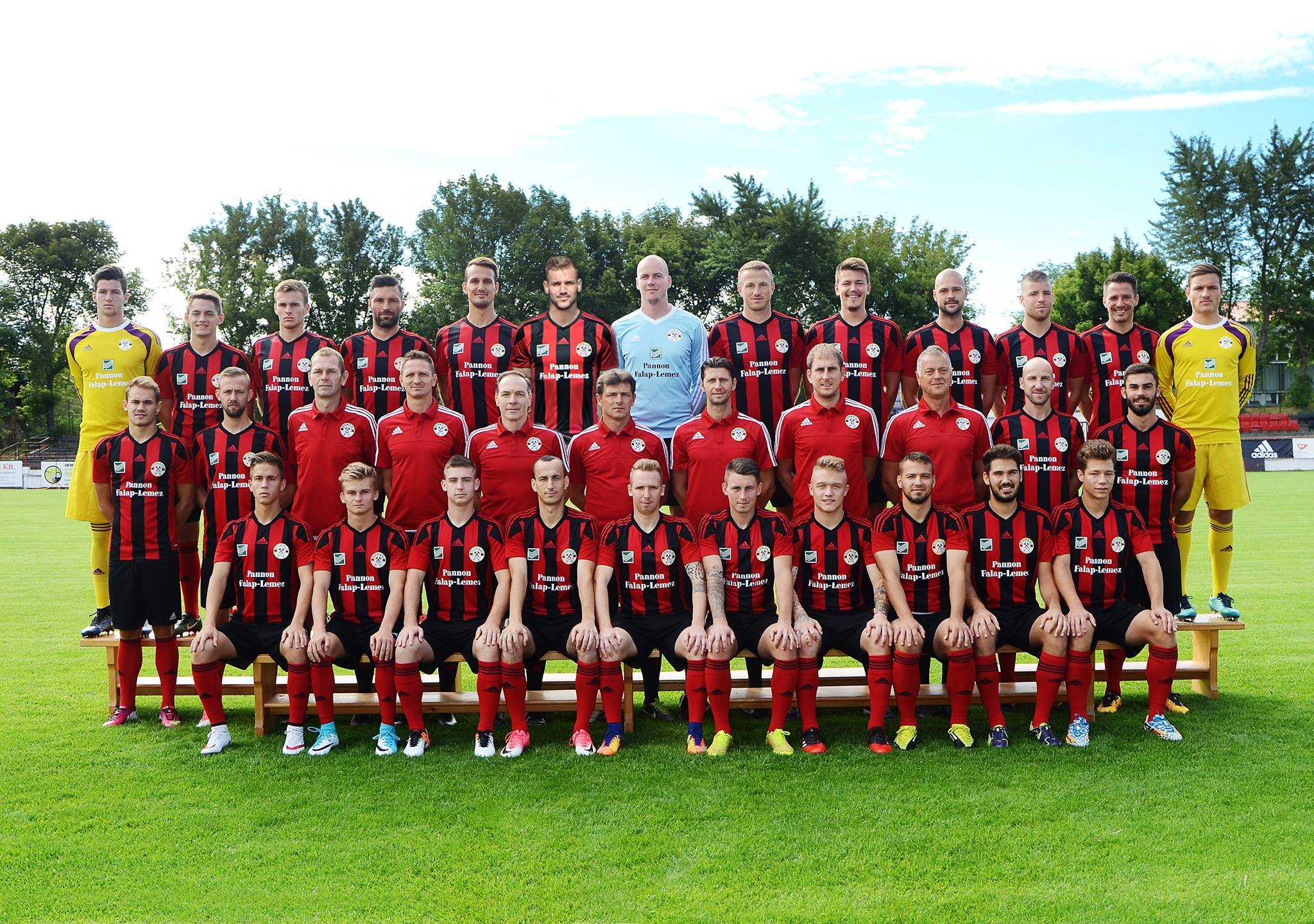 The soccer players, sport specialist and trainers together in beginning of the new season